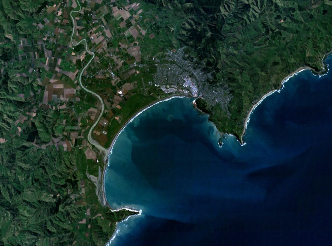 Satellite image of Gisborne, New Zealand. landsat-7 image.